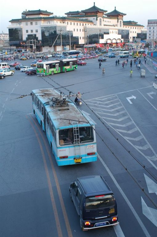 Beijing trolleybus